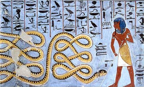 Ancient Egyptian art depicting Apep being warded off by a deity.